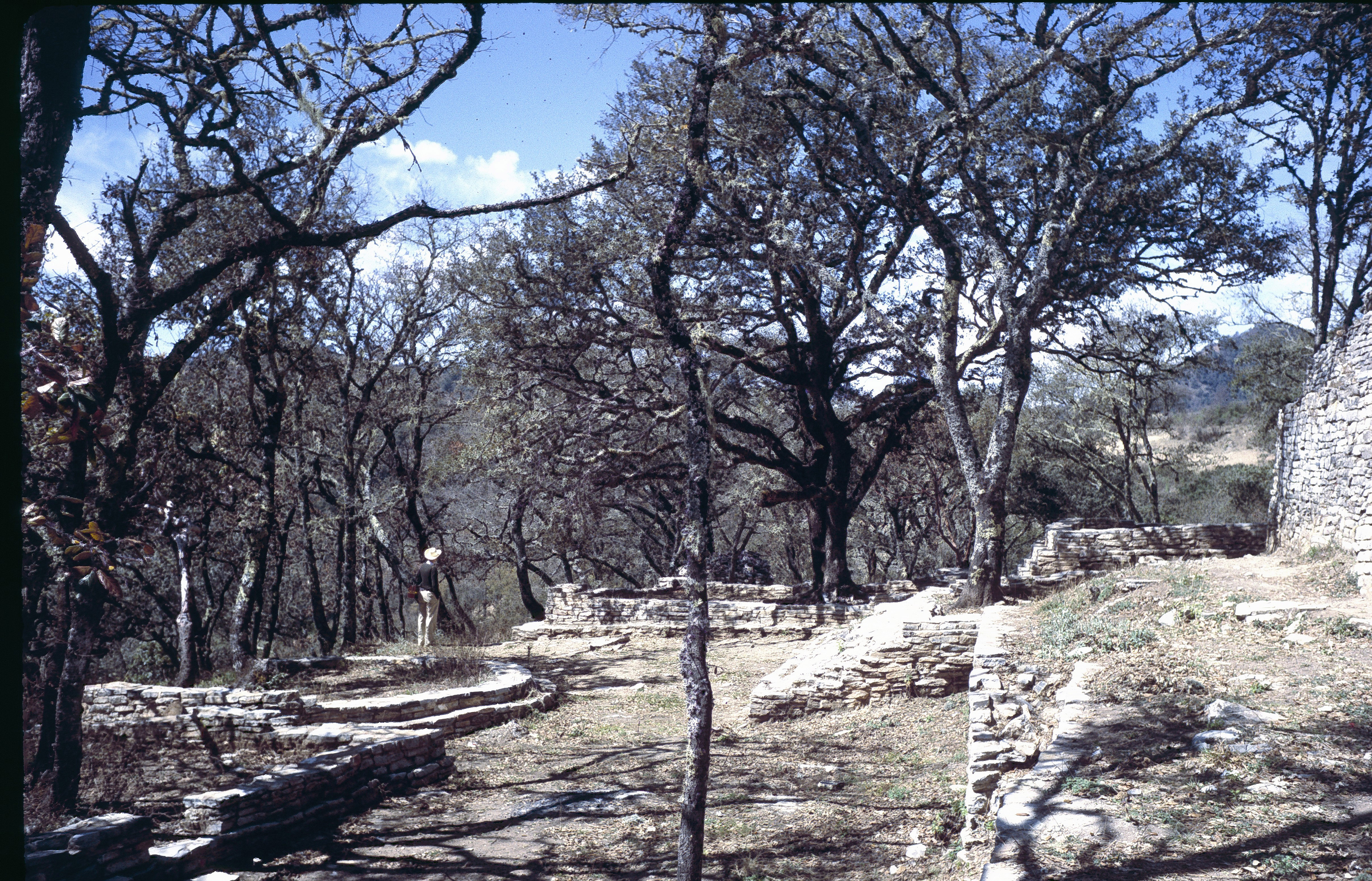 Las Ranas, Queretaro, Mexico: Defensive walls and residential area